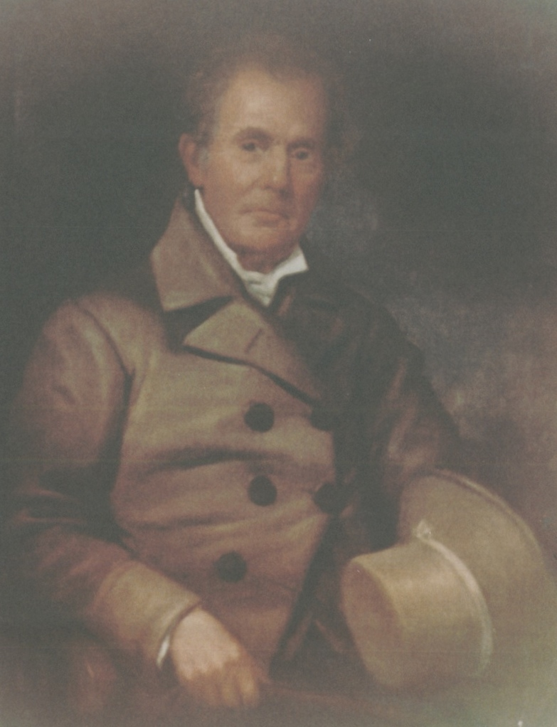 painting of Vardry McBee (1775-1864), merchant, entrepreneur, sometimes called "The Father of Greenville" (South Carolina).